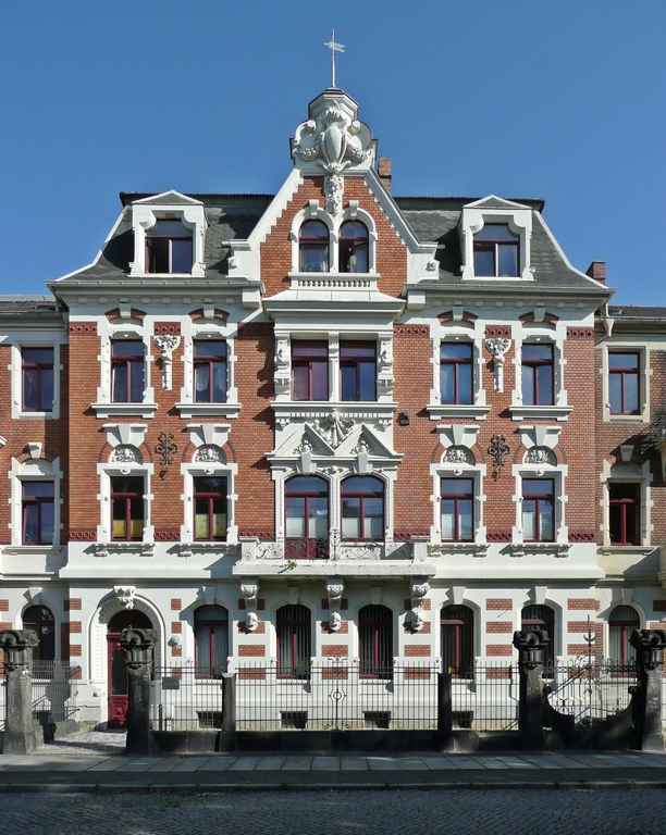 Pirna, Gartenstraße 23 (cultural heritage monument), house from the Gründerzeit.